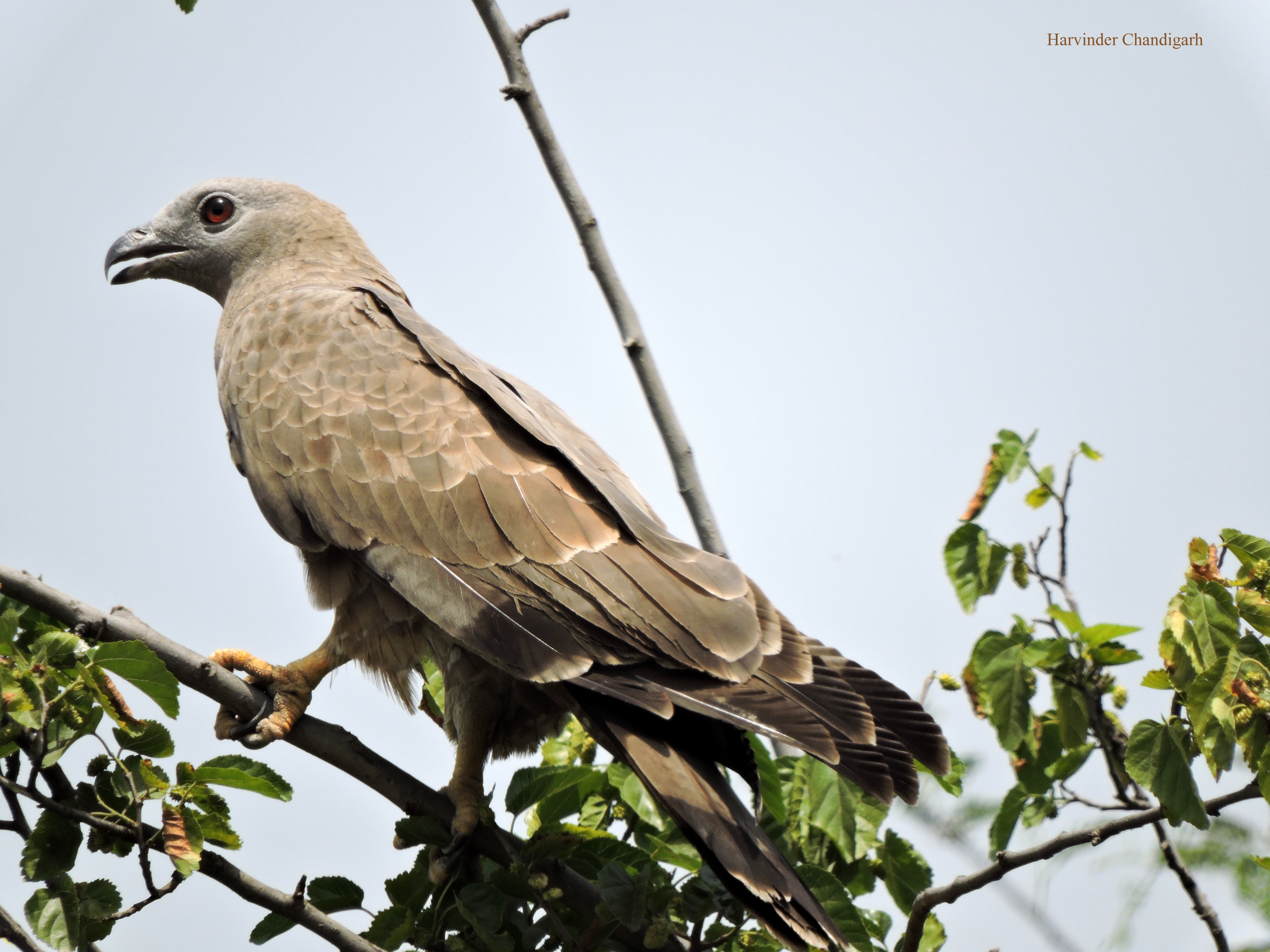 Crested honey buzzard,Morinda ,Punjab, India